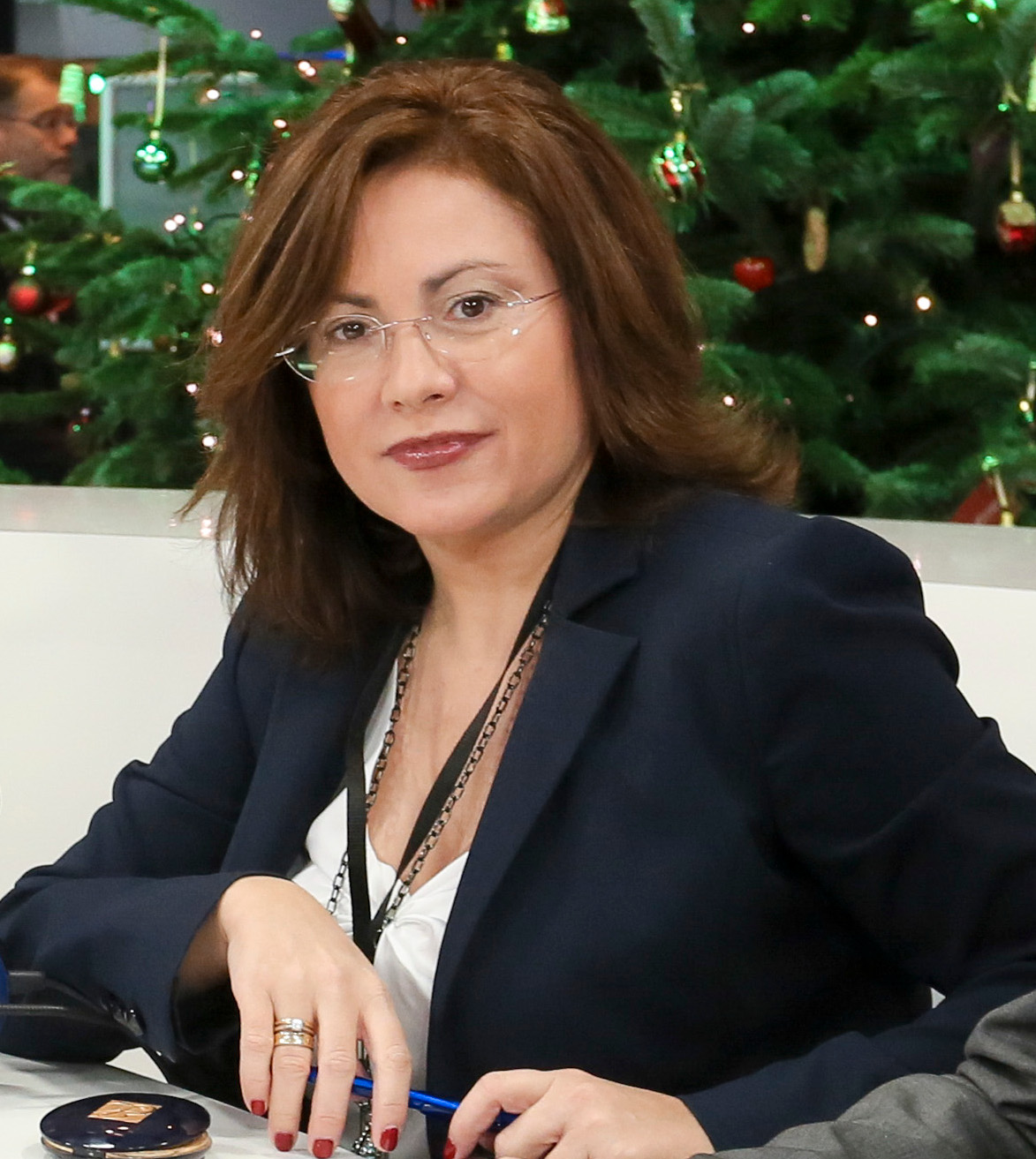 Greek journalist and MEP Maria Spyraki in 2014.